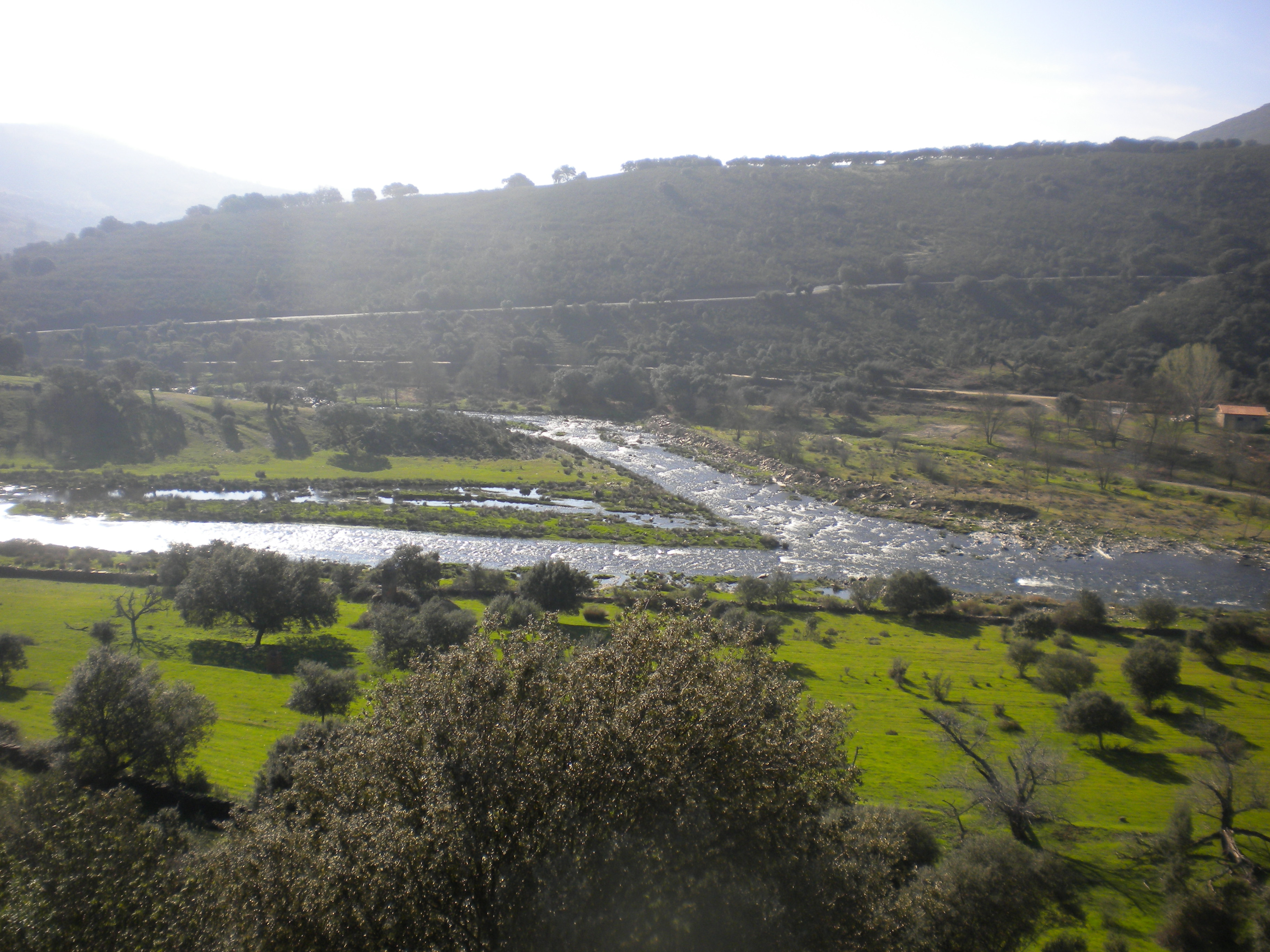 Confluence of Alagón and Cuerpo de Hombre rivers.